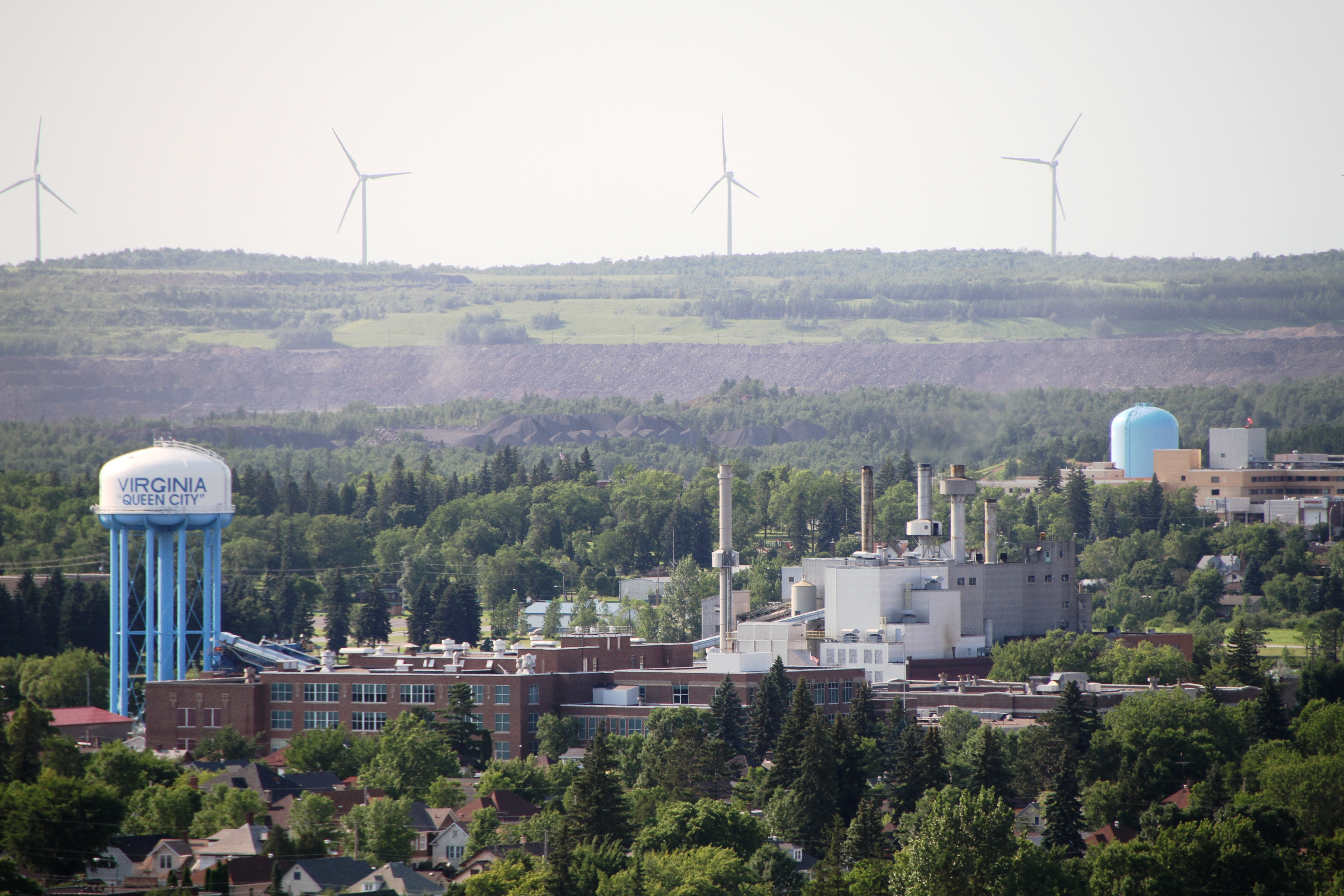 Image of Virginia, Minnesota, from the lookout point in southeast.